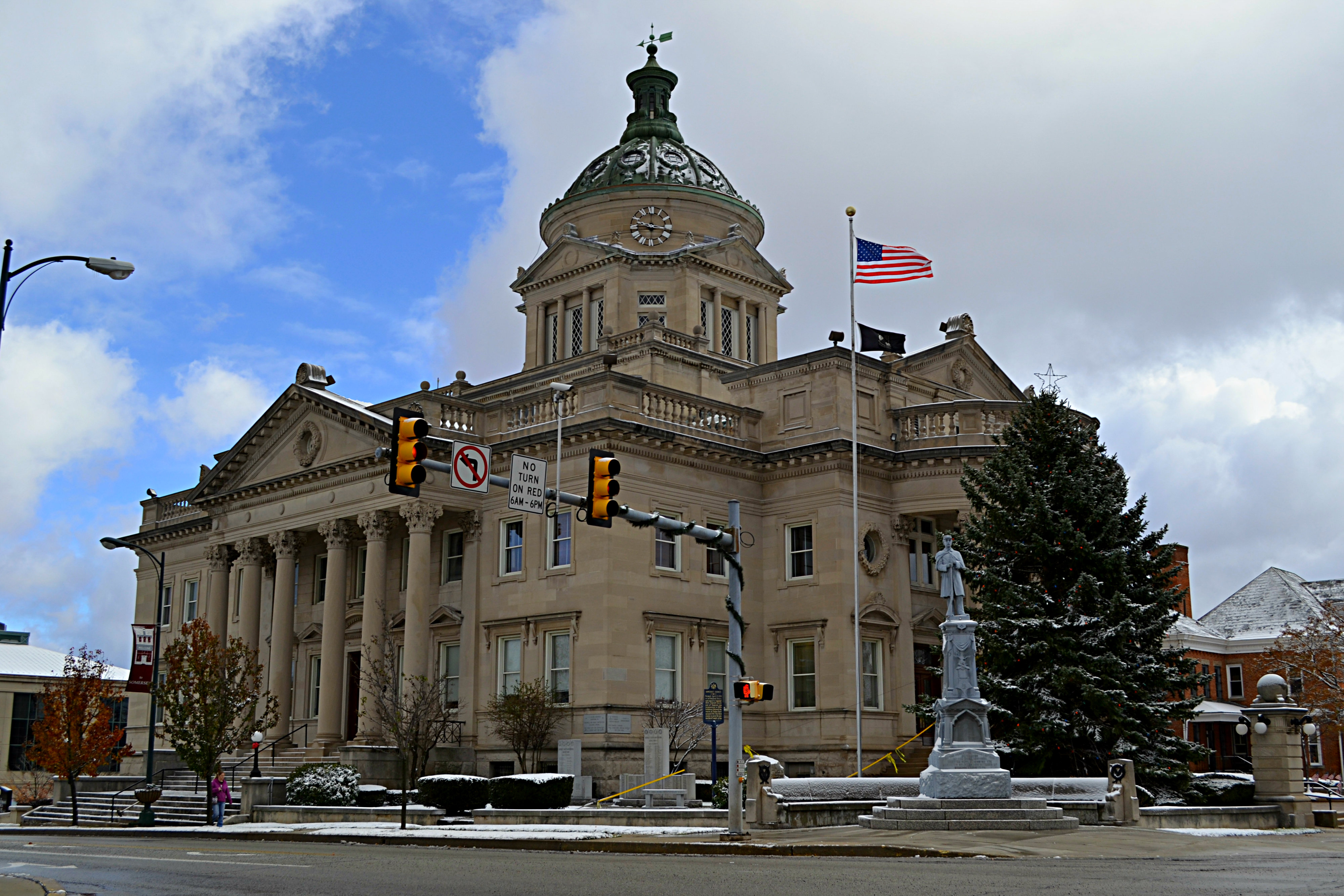 Somerset County Courthouse, East Union Street and North Center Avenue Somerset